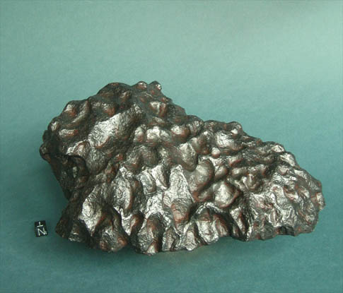 8.020kg oriented shield shaped Campo del Cielo iron meteorite